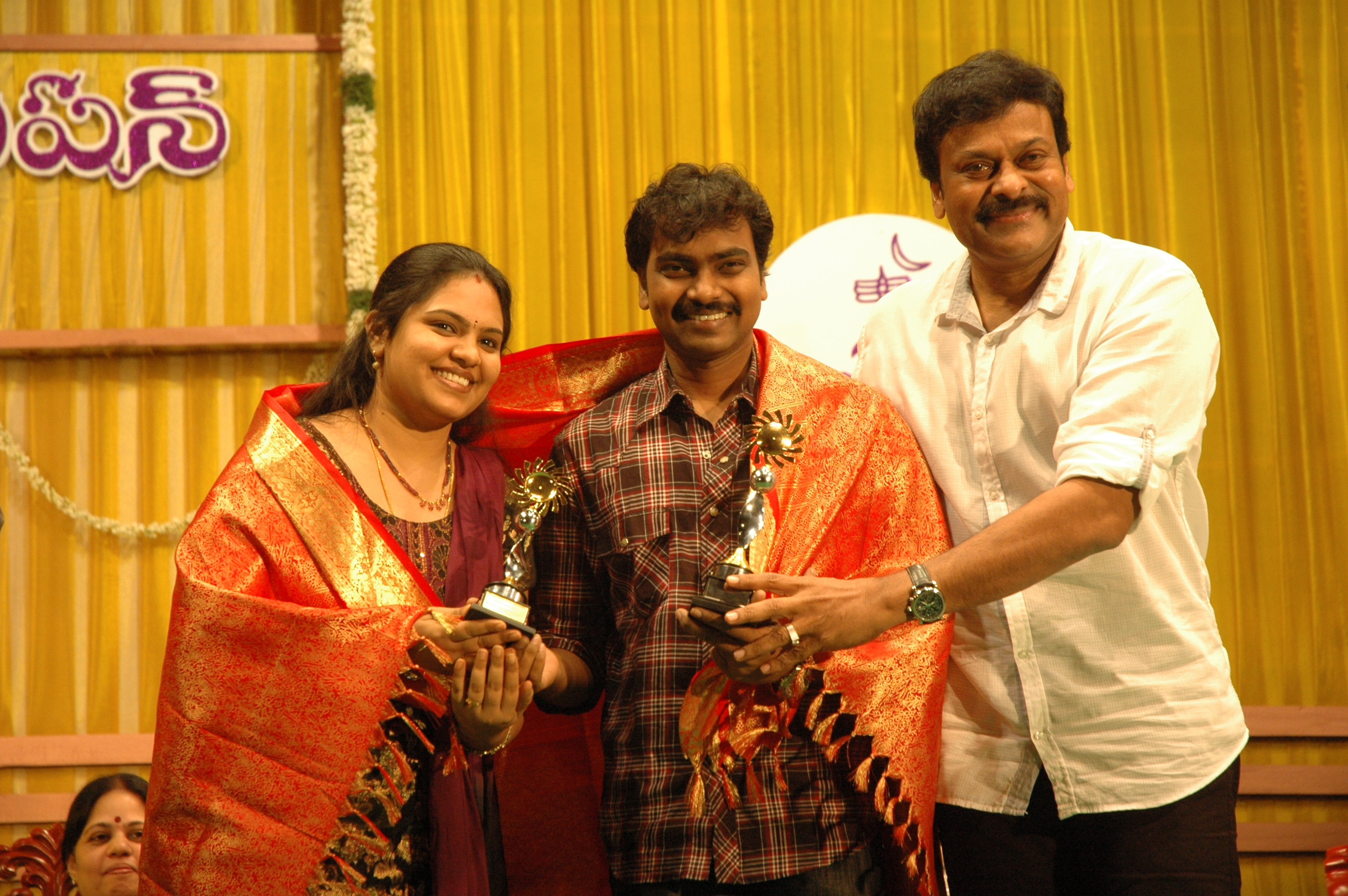 Mallikarjun and Gopika Poornima with Megastar Chiranjeevi